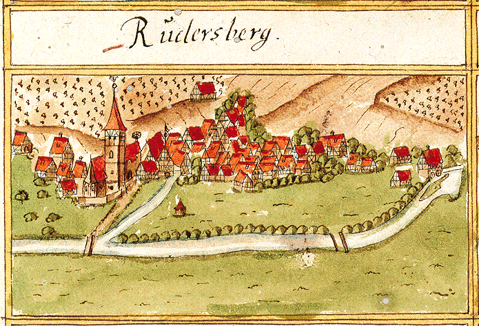 View of Rudersberg from the forest register books created by Andreas Kieser